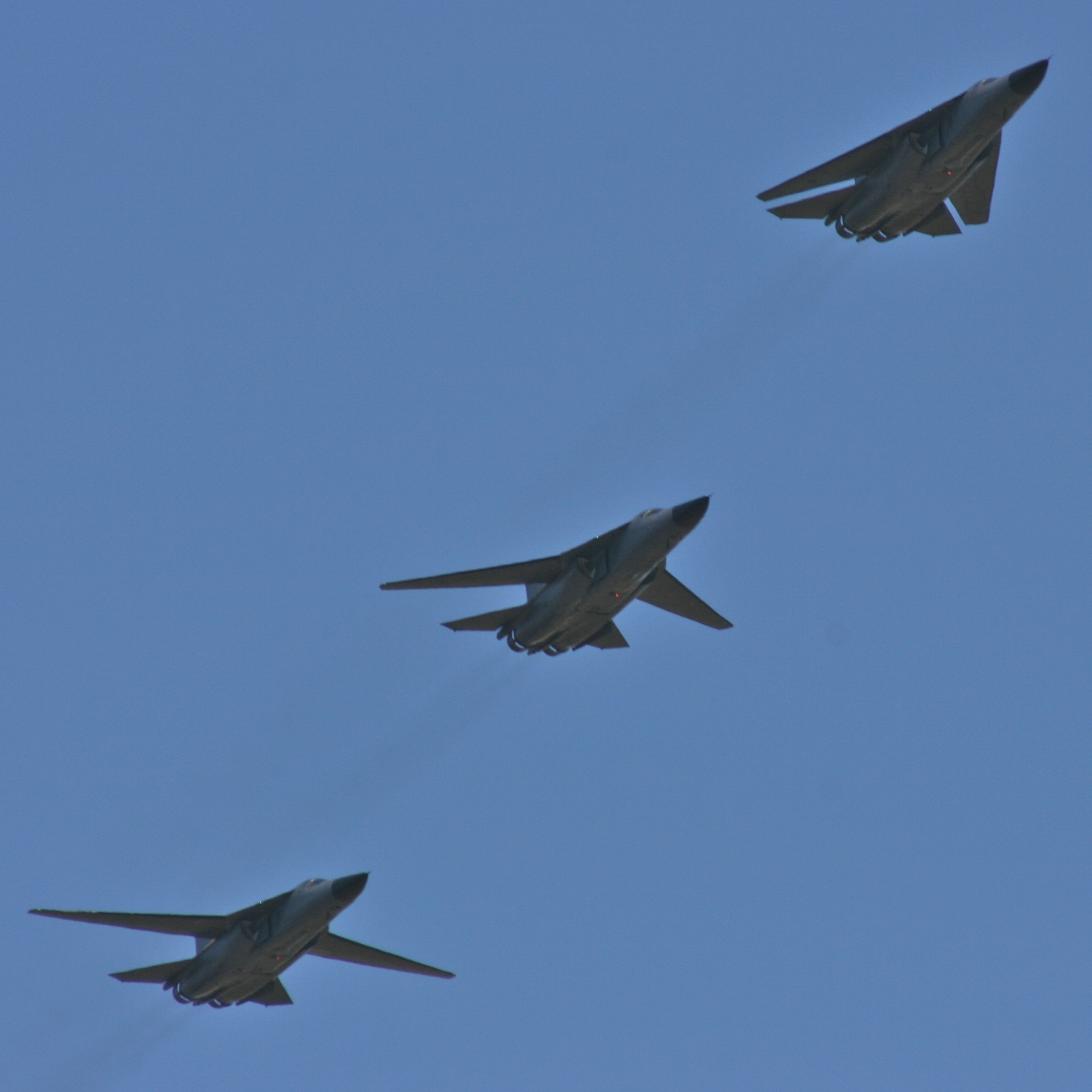 Three Royal Australian Air Force F-111s with their swing wings set at different wing configurations